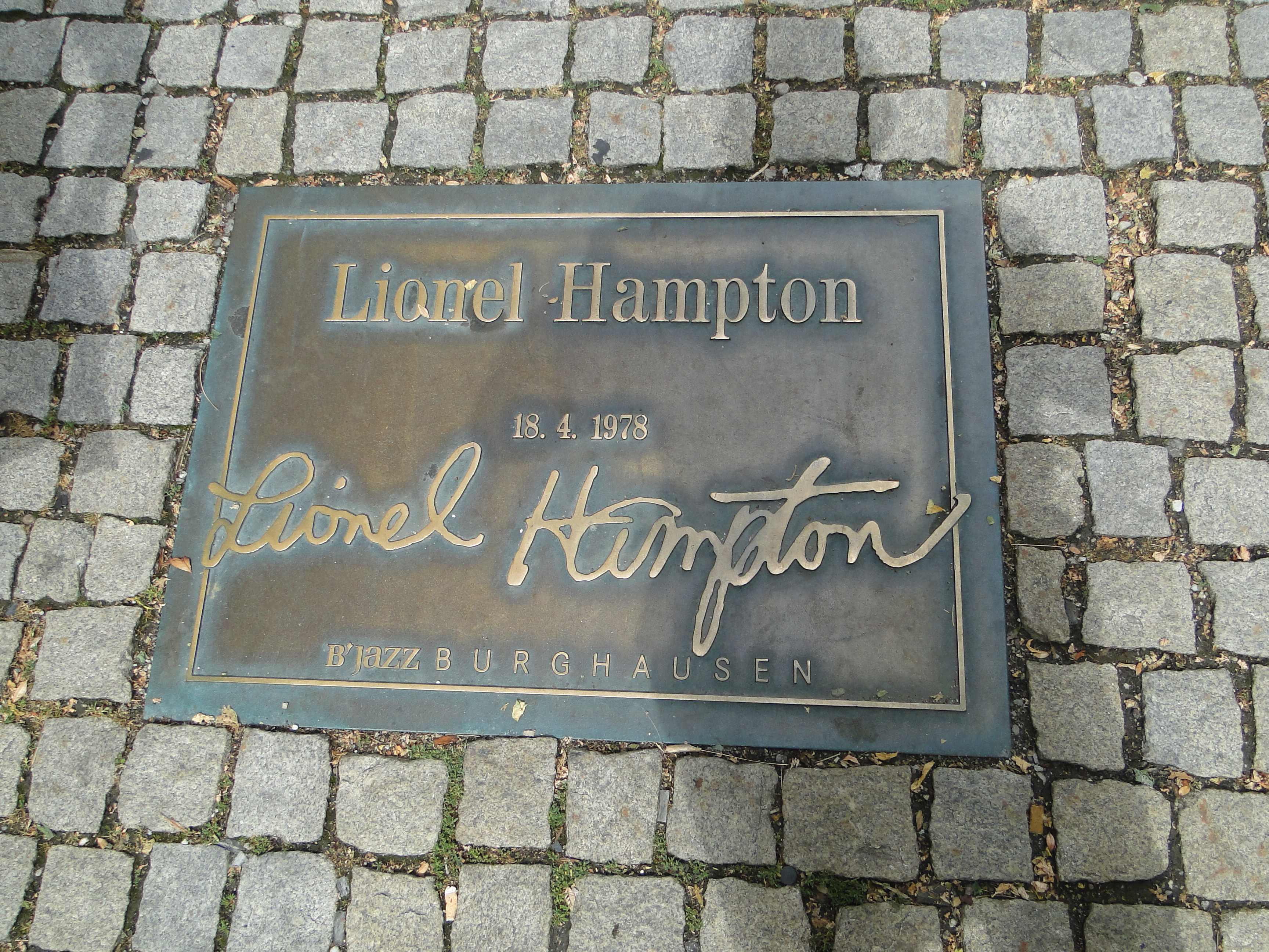 Plate of Lionel Hampton on the Walk of Fame in Burghausen (Germany)